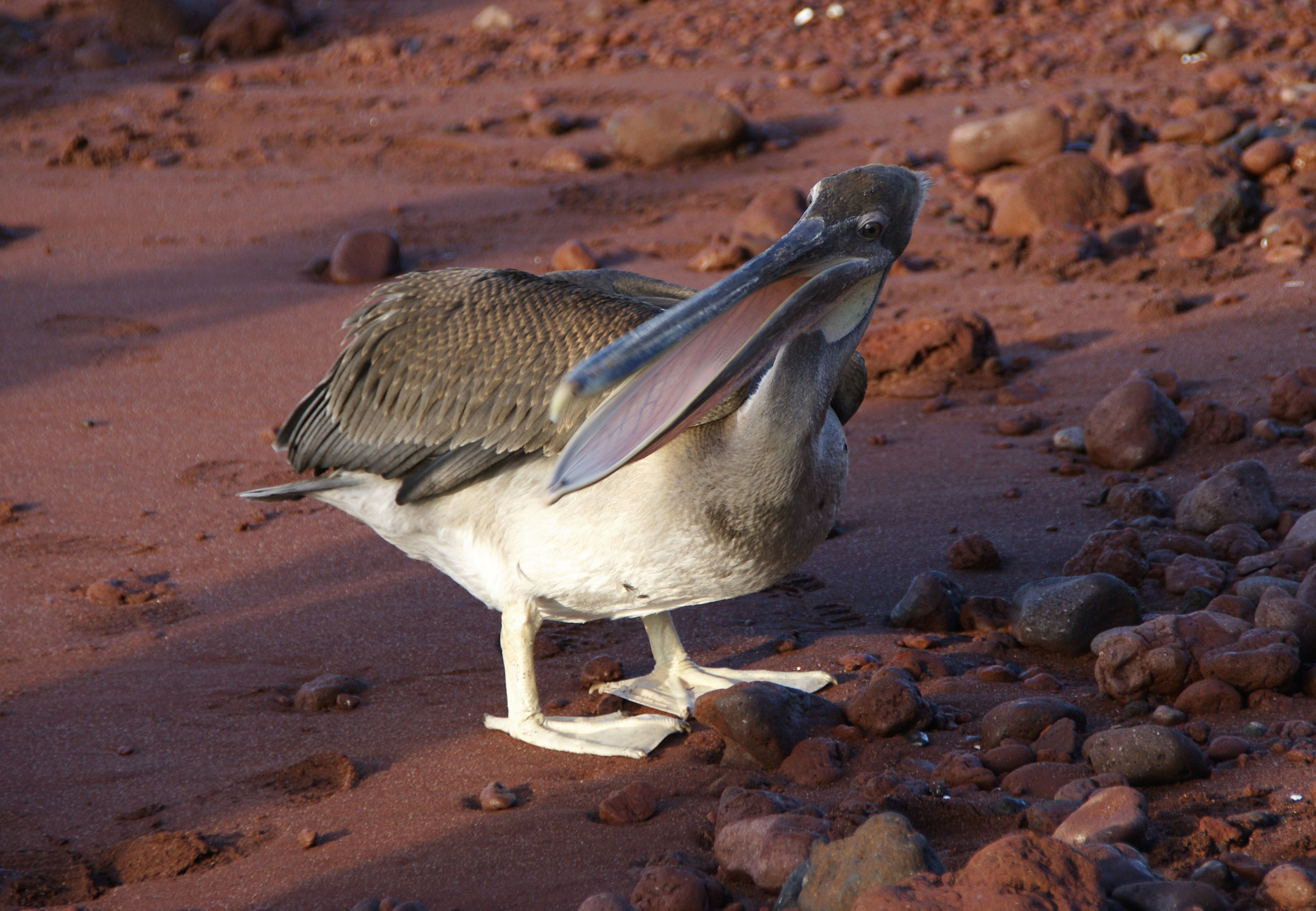 Pelecanus occidentalis on the Island Rábida of the Galápagos Islands. Isla Rábidabrown pelican Rabida Galapagos